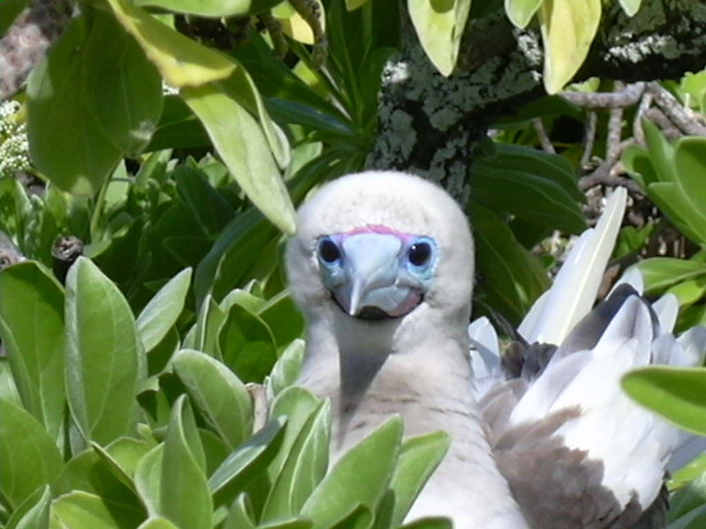 Red-footed Booby perched amid Beach Naupaka on Sibylla Island, Taongi Atoll, RMI.